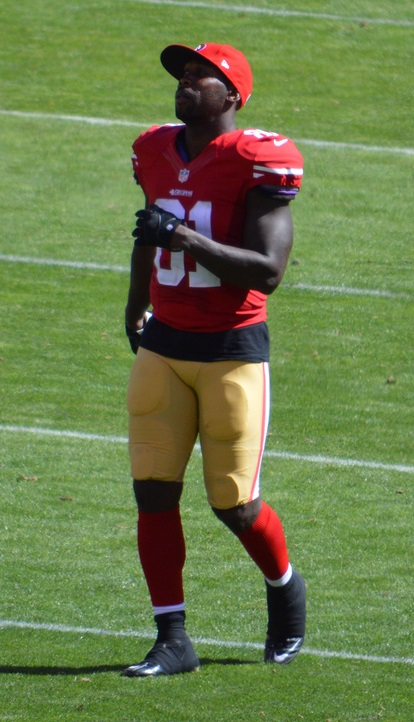 Anquan Boldin in 49ers uniform in 2013.